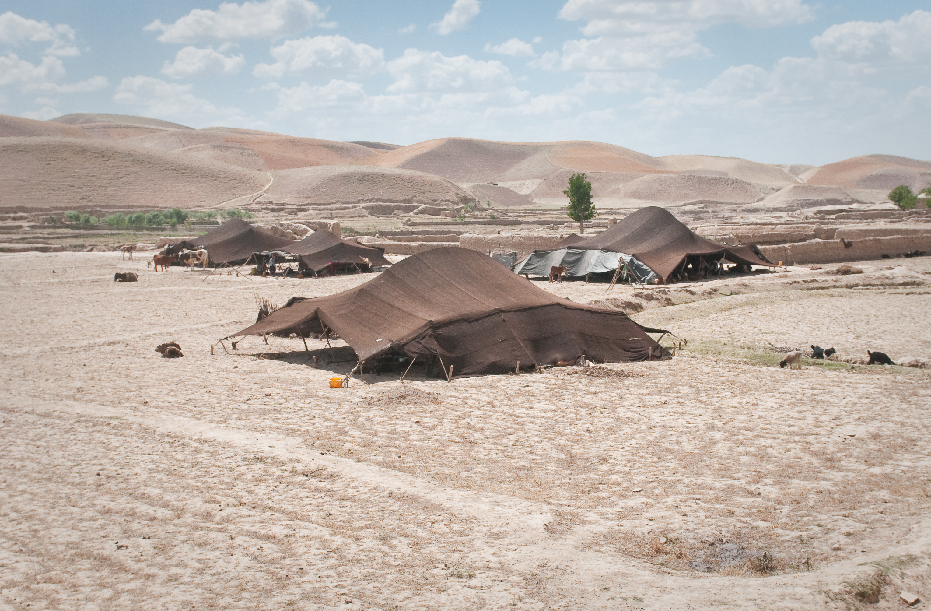 Tents of Afghan nomads or Kuchis are common in the village of Muqur in Badghis province. Numbering in the millions throughout the country, Kuchi life traditionally depends on the trading of animal products such as meat, dairy and wool from their herds of sheep, goats and camels. (Photo ID: 288568)